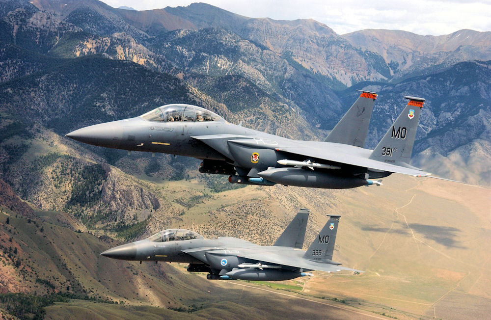 F-15Es of the 366th Operations Group